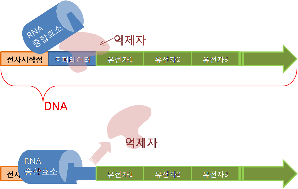 This ilusstration explan the represser's roll on gene expression controll.